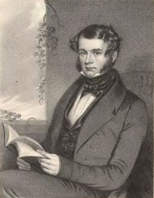 From the Memoir of William Jardine, 1858. It was drawn by Francis William Wilkin, engraved by Thomas Herbert Maguire and printed by M. & N. Hanhart in London.